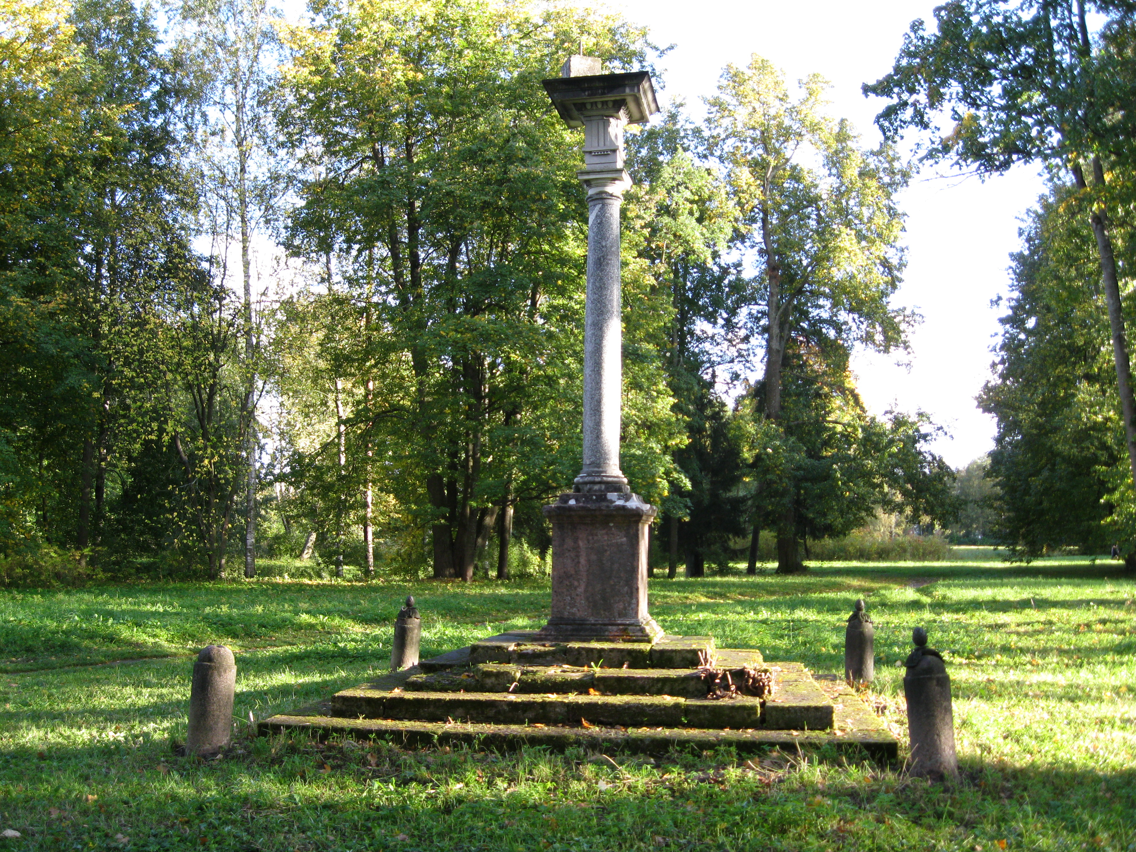 Princess von Lieven column in Pavlovsk, Russia